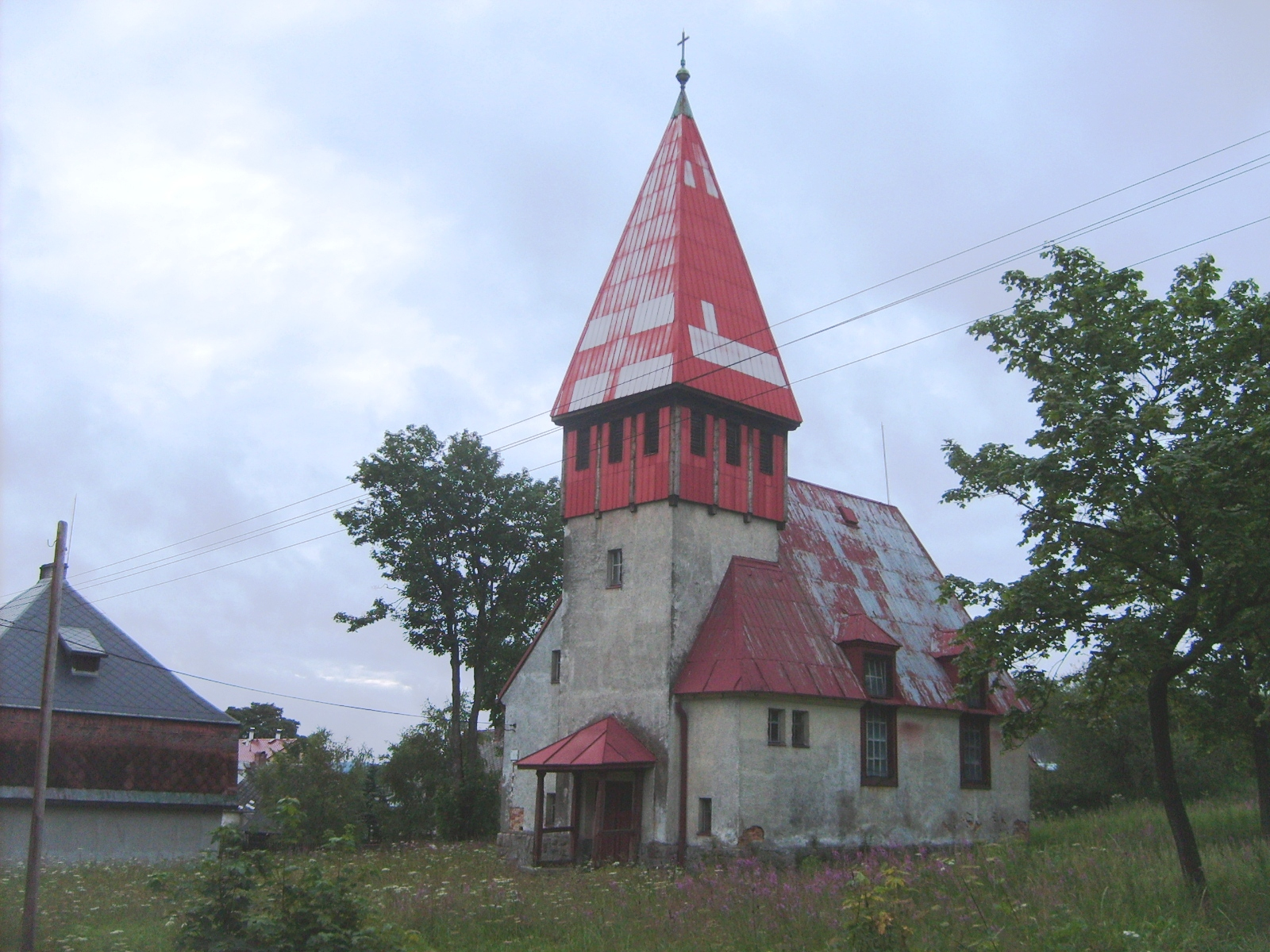 Horní Blatná - the Protestant Church